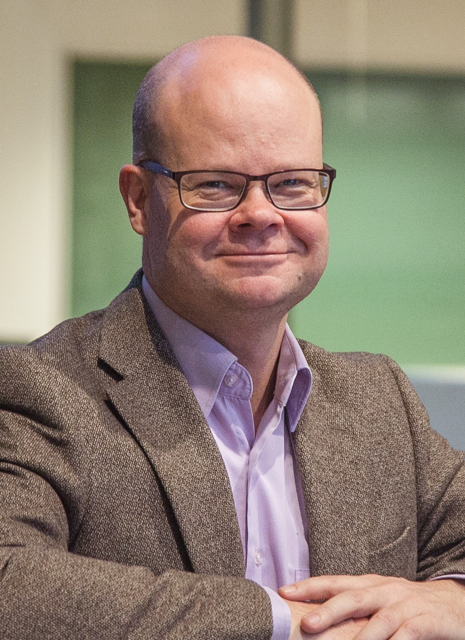 A portrait of Hannu Toivonen, a professor of computer science.